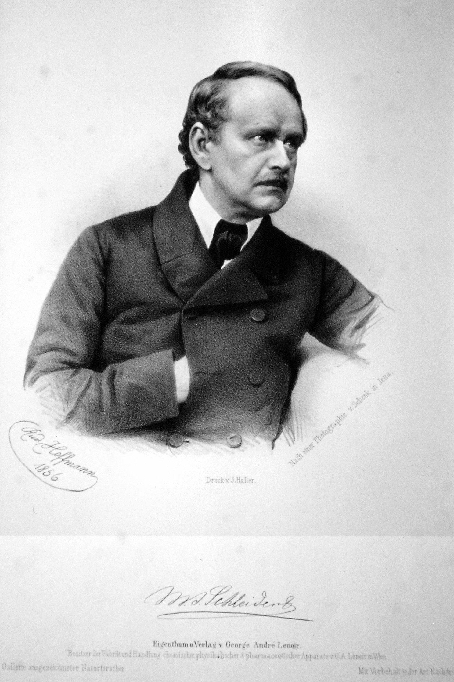 Matthias Jakob Schleiden (German botanist) 1804-1881; Lithography by Rudolf Hoffman after a Photo by C. Schenk (Jena)